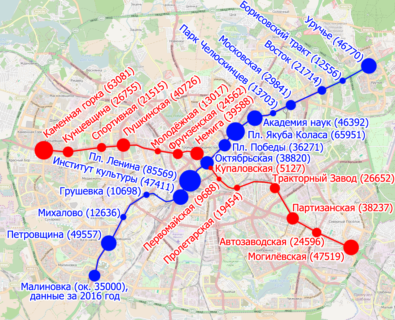 Passenger traffic in the Minsk metro by station. Malinauka station wasn't included in the survey in 2013, so more recent data is used. This map may be incomplete, and may contain errors. Don't rely solely on it for navigation.